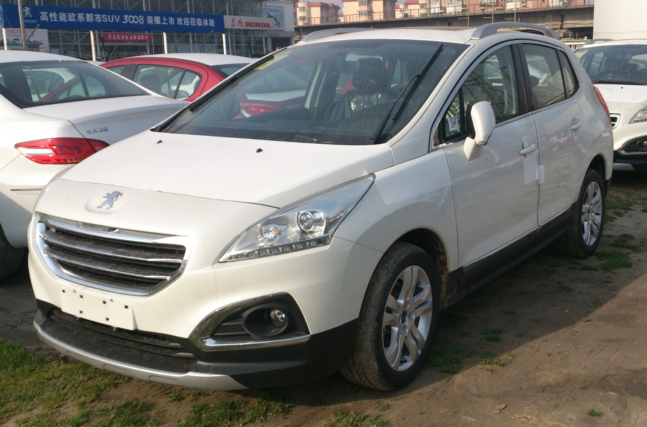 Peugeot 3008 CN photographed in Shanghai, China.